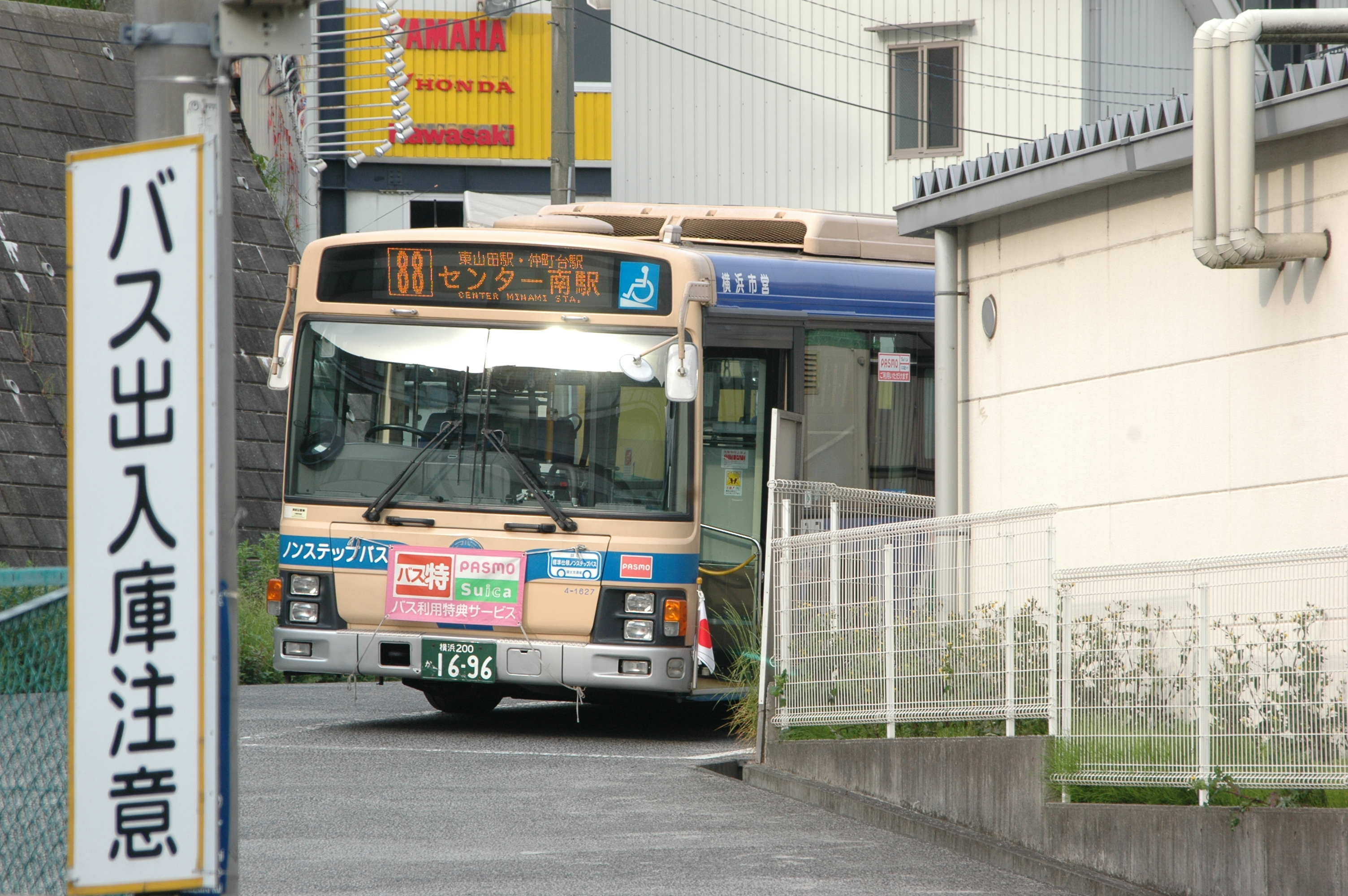 Yokohama municipal bus no.88 line, in Shin-Kitagawabashi Terminal, Yokohama, Japan